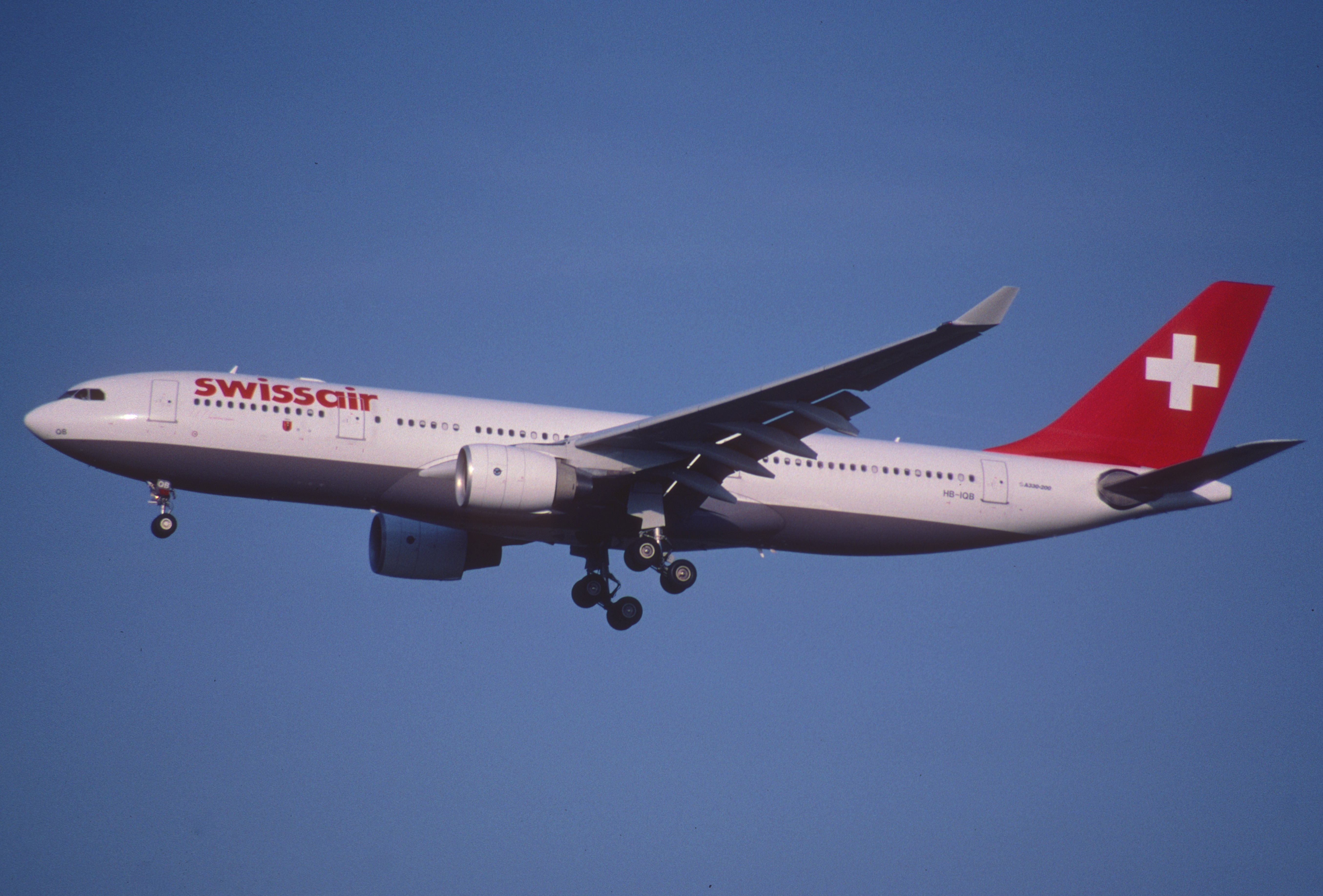 135ar - Swissair Airbus A330-200; HB-IQB@ZRH;30.06.2001